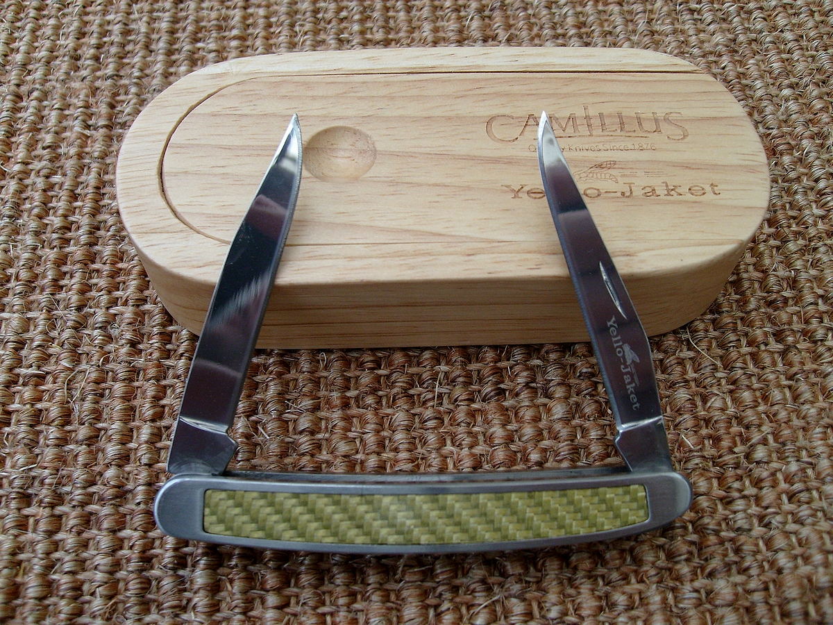 My wife's knife.